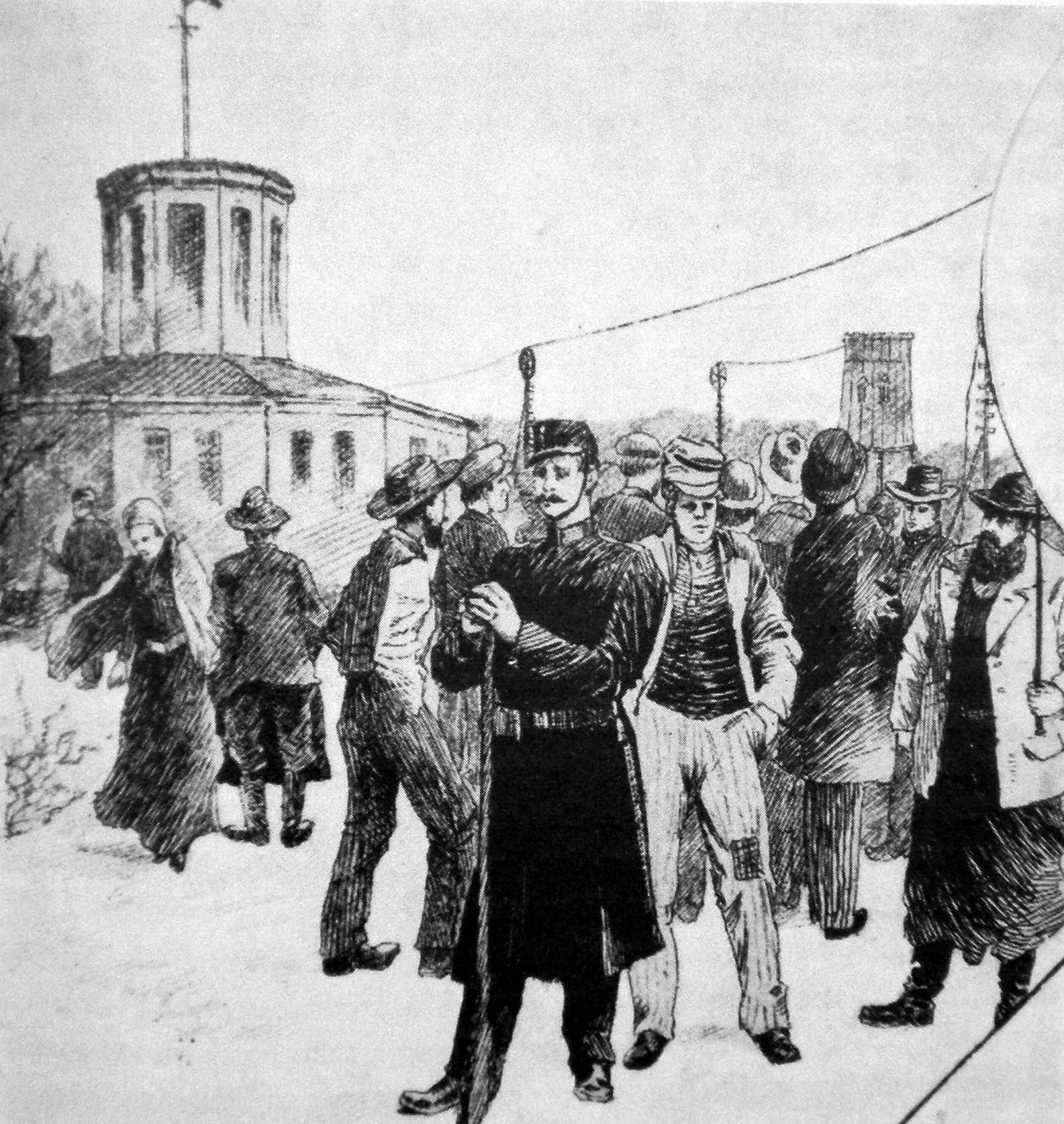 strikers in front of Risbergsschaktet in Norberg, April 1891. Drawing by the paper "Svea's" "special artistic correspondent" H. Reuterdahl.